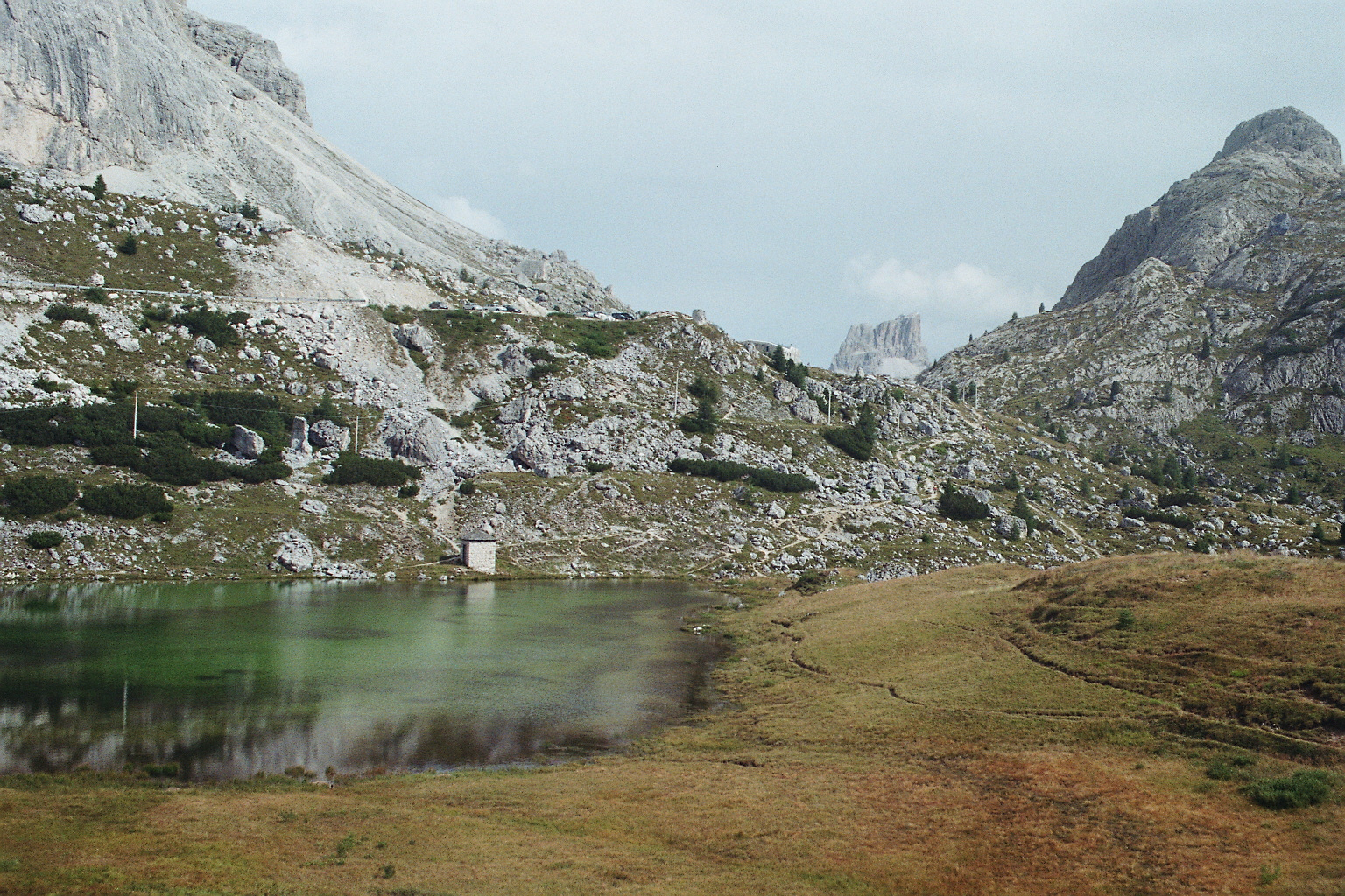 Valparola Pass with "blue stone" at right hand side of picture below peak of mountain.